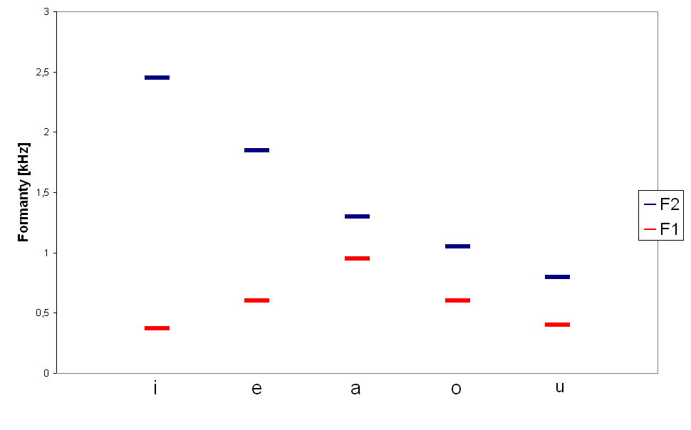 Formants of the Czech vowels